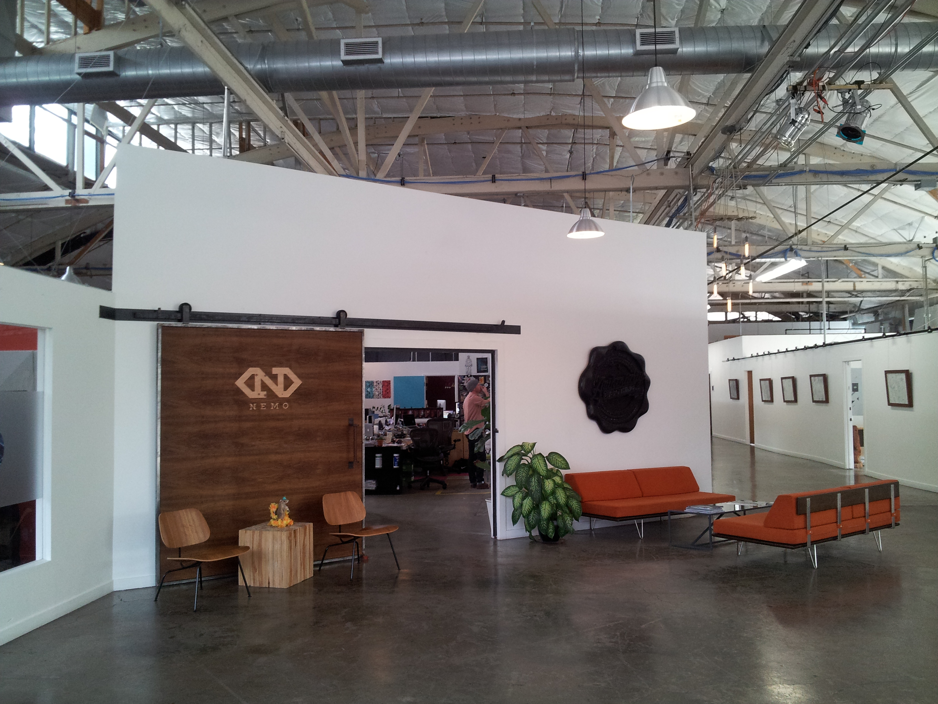 Nemo Design, Portland, Oregon